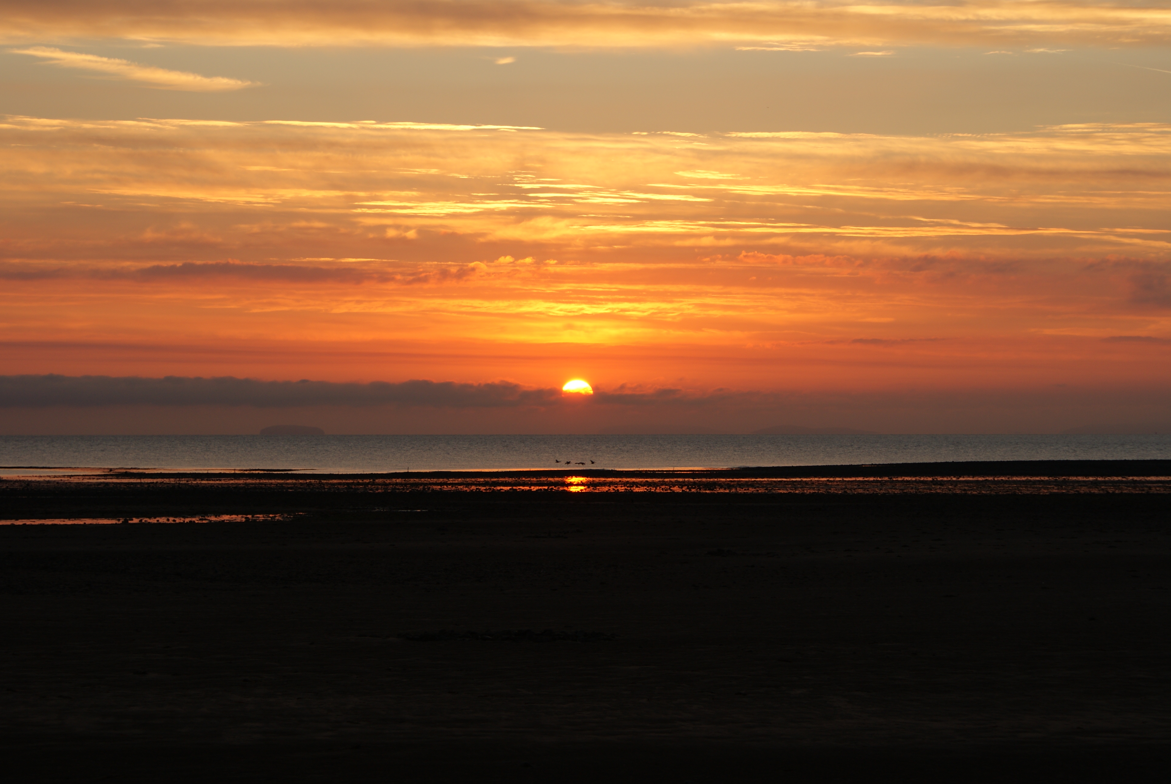 Sunrise over the Bristol Channel taken from the shore near the coastal town of Minehead in the county of Somerset,England. Sun rose at 05:30, and peeked above the clouds at 05:37, this photo was taken 05:39 BST on 27/07/2008, by Sean Hattersley. (The image has not been adjusted in any way.)